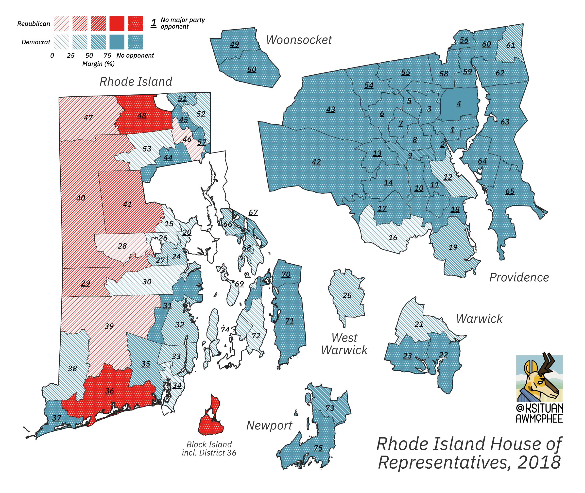 A series of state legislative election maps, created from open data during the summer of 2020. Their common visual style is designed to accomodate all of the unique features of American democracy. They were created using QGIS and Inkscape, two free programs. Please use freely and contact the author with any inquiries about visualizing election data with open-source tools.